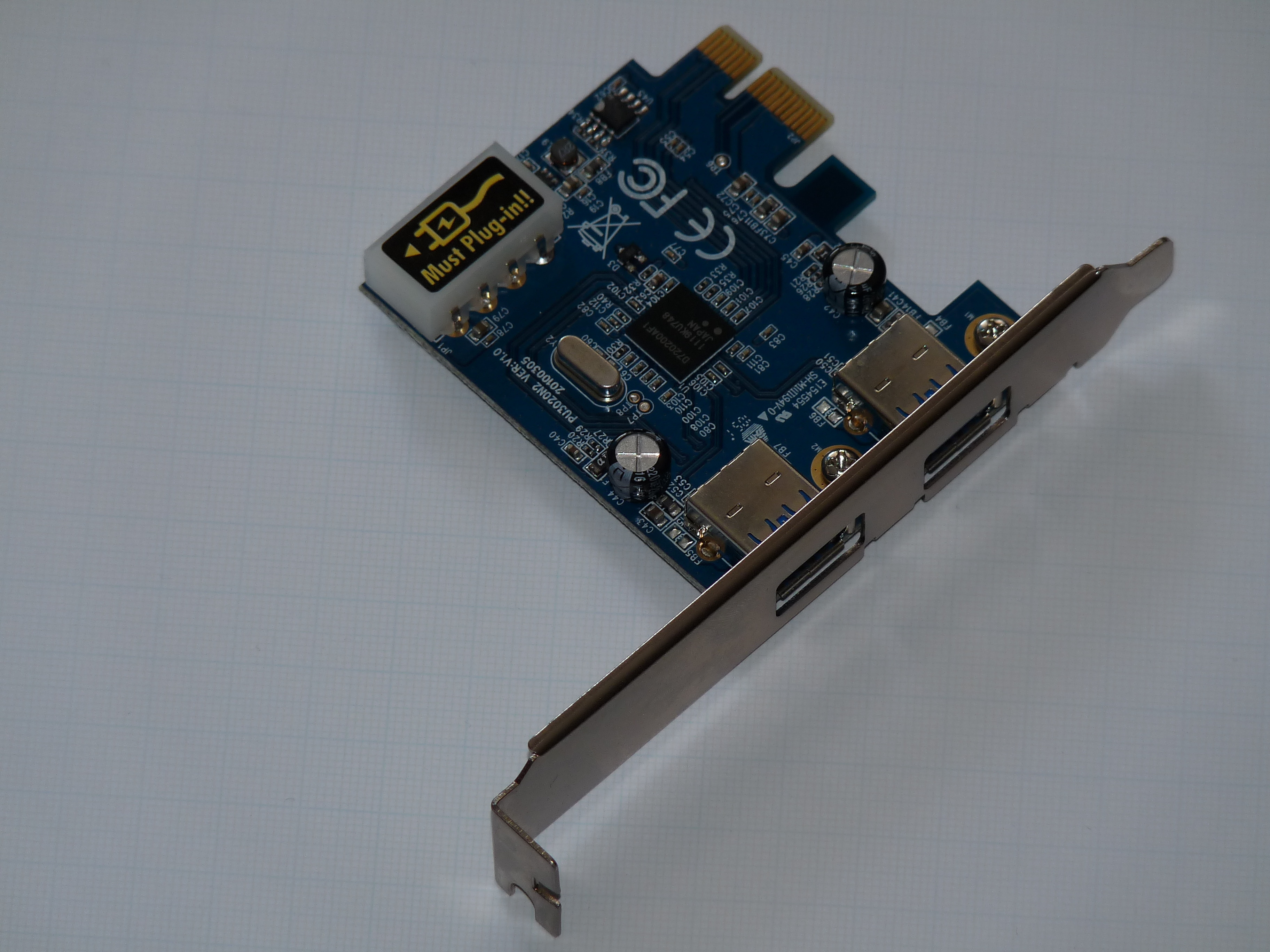 PCIe card with two USB_3.0 ports